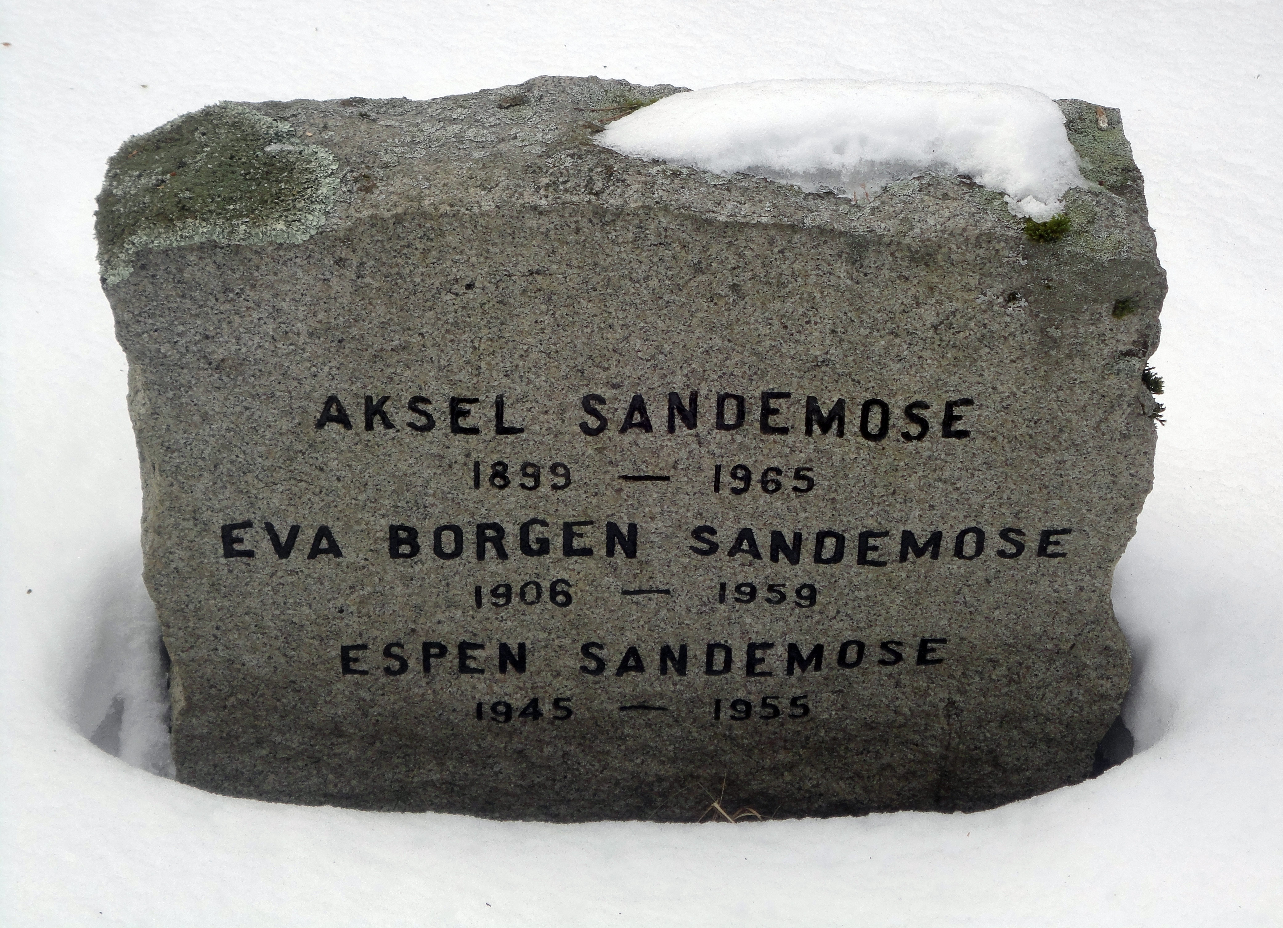 Grave of Norwegian author Aksel Sandemose, his wife Eva and their son Espen. Vestre Gravlund, Oslo, Norway